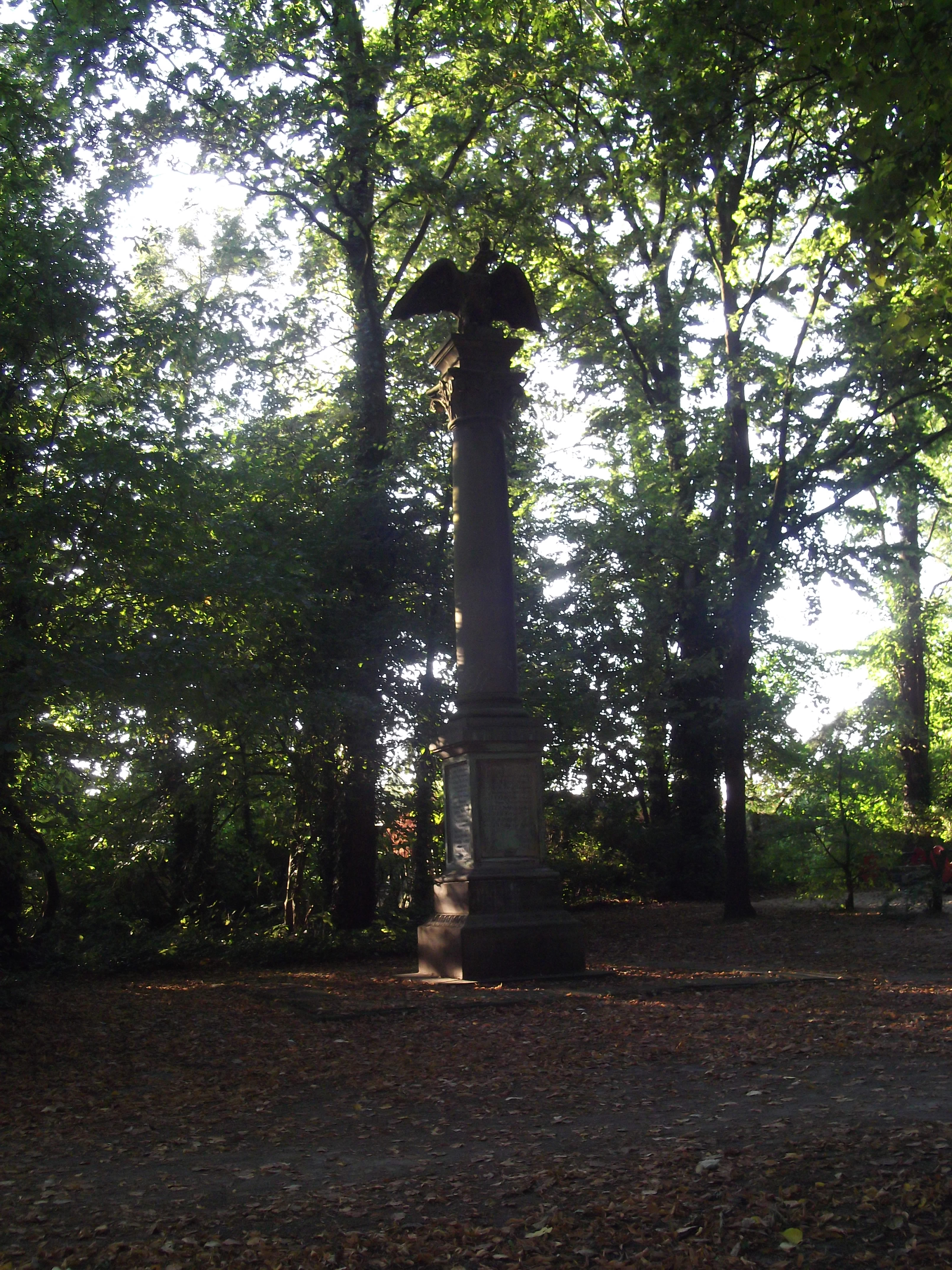 Monument of the Oldenburg Dragoon Regiment No. 19 in memory of the soldiers killed in action of the German-French war 1870/71. It contains too the names of the soldiers killed in action of the small town Osternburg and the village Tweelbäke; today both part of the City of Oldenburg. Constructed ca. 1875, position until ca. 1960 in Oldenburg-Osternburg, Bremer Straße/Ulmenstraße, than Wunderburgpark, Wunderburgstraße. It contains all names of the soldiers killed in action of the Dragoon Regiment itself and the names of the soldiers killed in action of Osternburg and Tweelbäke. Material sandstone.